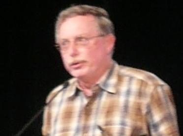 Mark Klein, AT&T whistleblower.